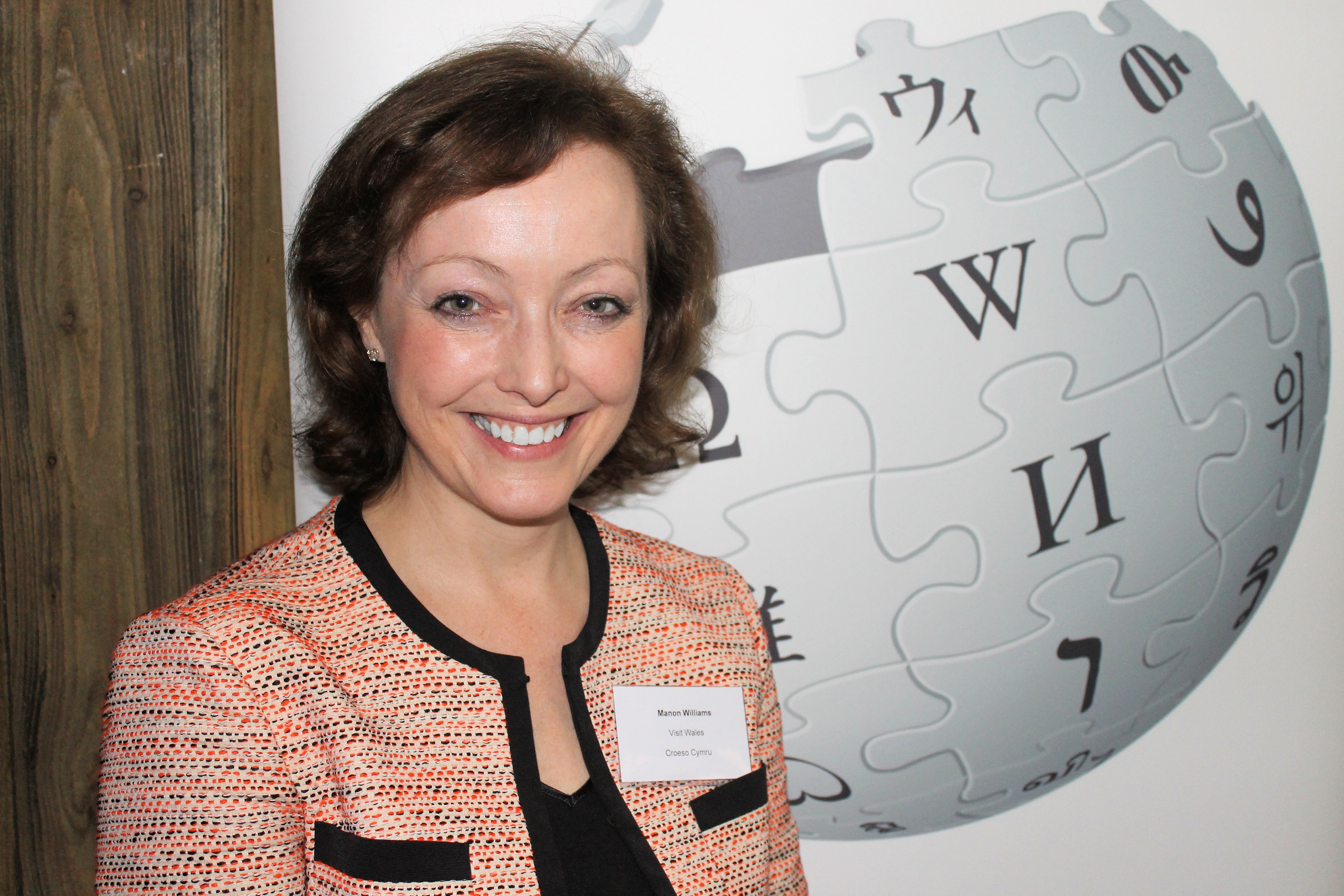 Manon Antoniazzi (née Jenkins, previously Williams) Chief Executive Officer - Tourism and Marketing for Wales at The Welsh Government with the Wikipedias logo in the background.